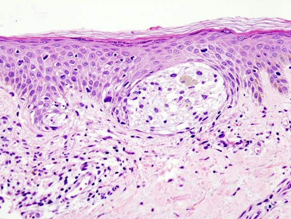 Histopathologic image of malignant melanoma (Case 01). Skin biopsy. H & E stain.